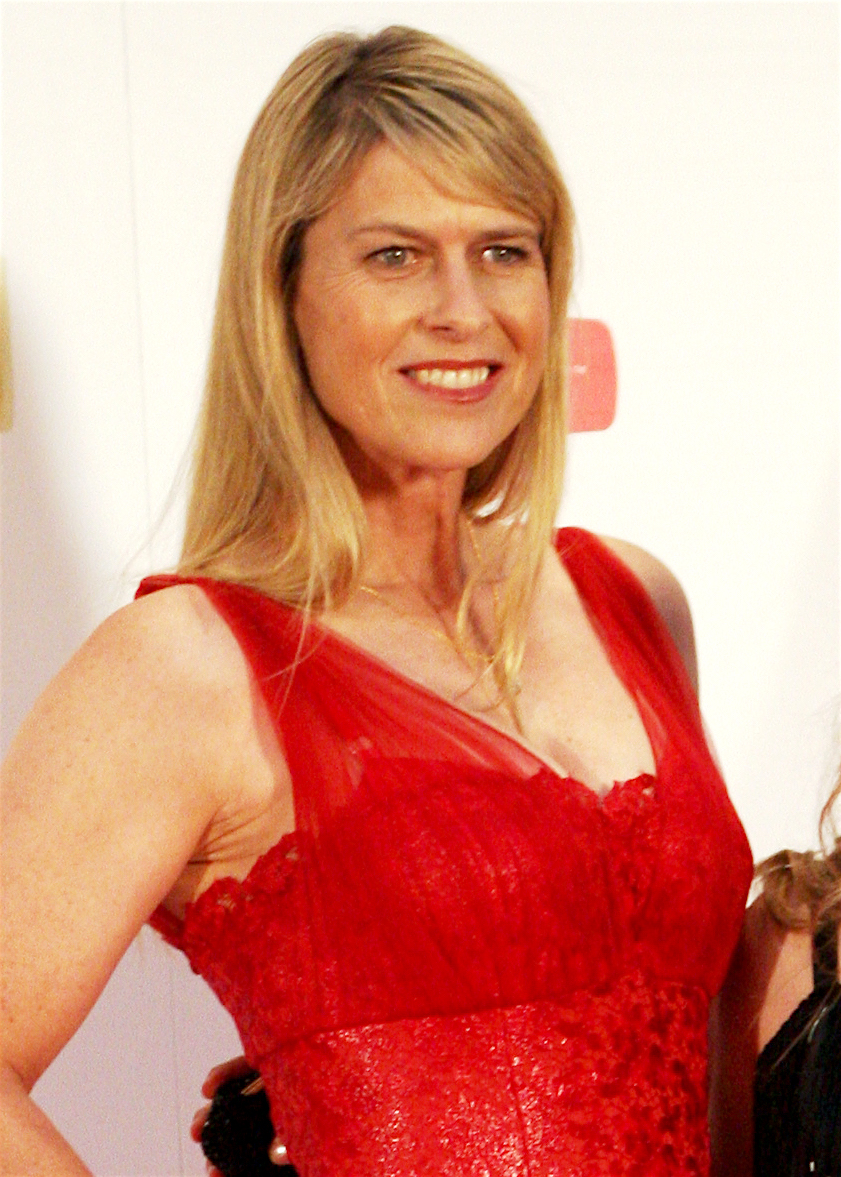 Bindi Irwin, 2014